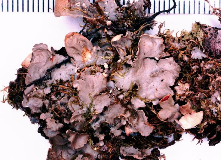 Nephroma resupinatum (L.) Ach., 1810 (photograph of a herbarium specimen) Growing in moss at the base of Red Maple in low woods in the lower falls area at Tahquamenon, ca. 8 miles W of Paradise, Chippewa County, Michigan, USA; collected and identified by Richard E. Riefner (No. 81-540, 28 Jul 1981); specimen is now in the Lichen Herbarium of the New York Botanical Garden. (millimeter scale)